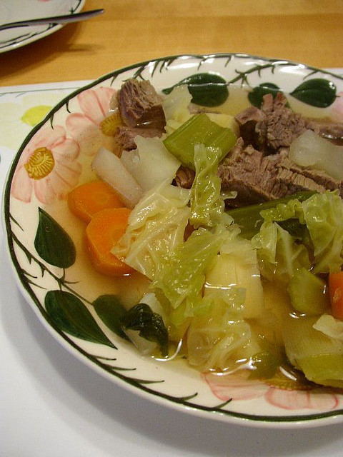 Pot-au-feu